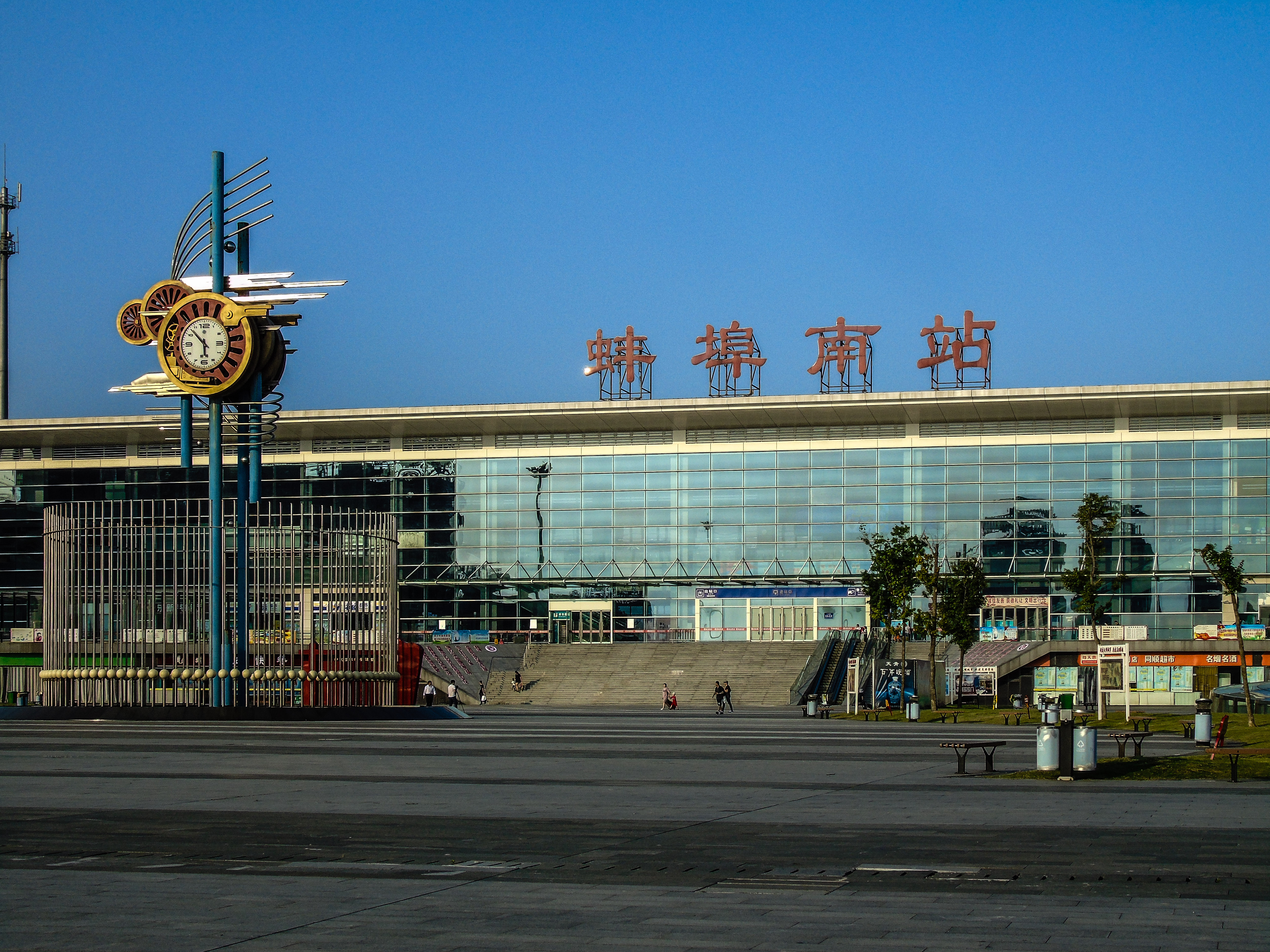 Beijing-Shanghai High-Speed Railway and Hefei-Bengbu High-Speed Railway converged there.